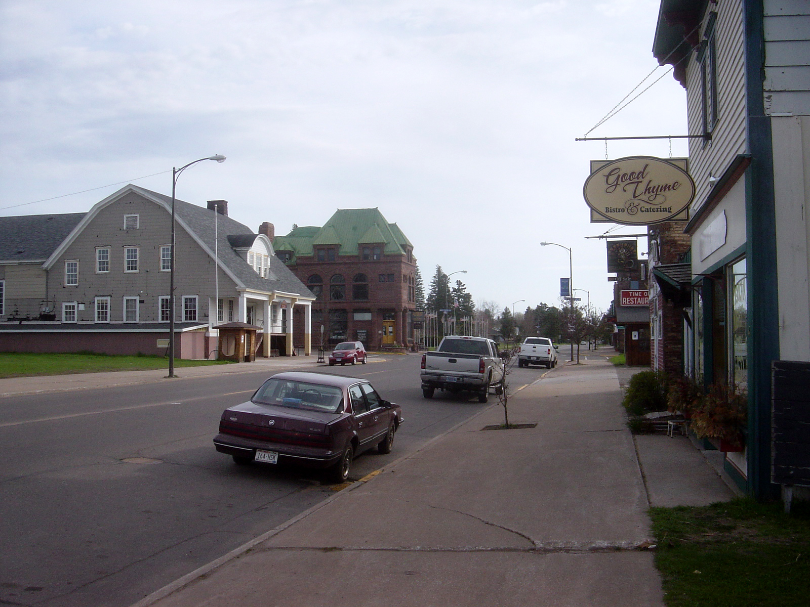 The main street (Bayfield St./Rte. 13), Washburn, Wisconsin